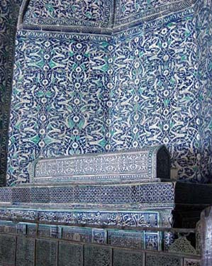 Sagana (thomb) of Muhammad Rahim Khan in the Pahlavan Mahmoud Mausoleum, Khiva, Uzbekistan